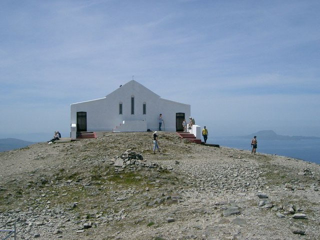 Croagh Patrick. Looking westwards on the summit, Clare Island can be seen on the right of the picture.